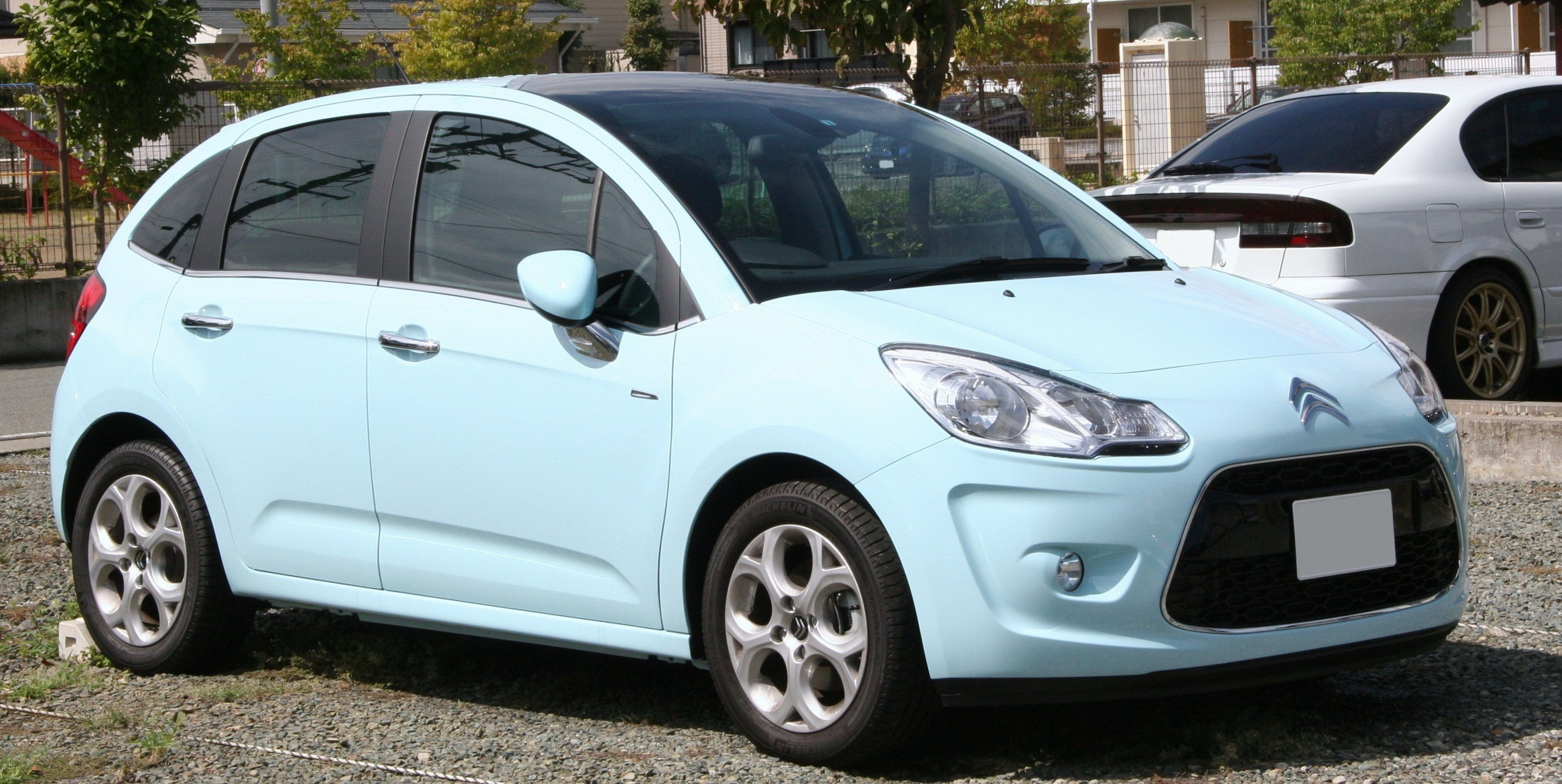 Citroën C3